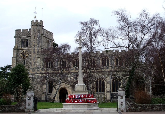 SS Peter & Paul, Tring from the Rose & Crown Taken across the High Street in Tring from near to the 706161 with the war memorial at SP9245311445 almost bisecting the church. This view is perhaps best seen at this time of year when the lack of foliage on the trees makes for a clearer view of the church.